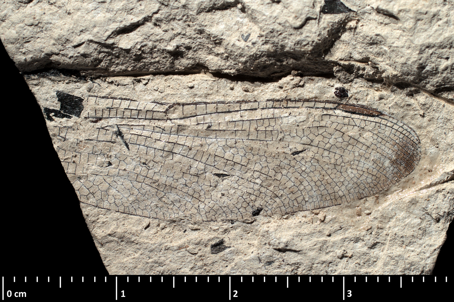 The Boyeria europaea holotype specimen part side with direct lighting. Synonym Allopetalia europaea Messinian, Miocene; Foufouilloux outcrop, Sainte-Reine, Cantal, France Muséum national d'Histoire naturelle specimen MNHN.F.R10444